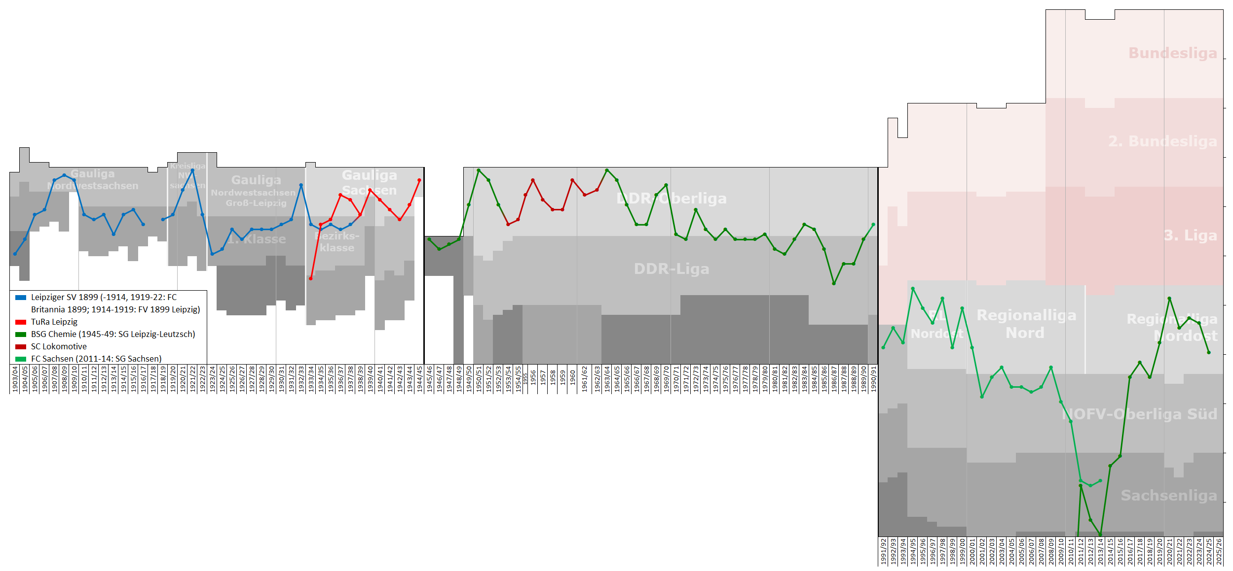 Chart of end-season table positions of Chemie Leipzig in the football league system of Germany and GDR. Data source: RSSSF, wikipedia, f-archiv.de, fussball.de